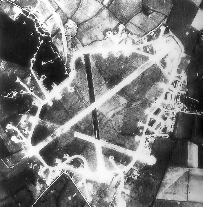 Aerial photograph of RAF Thurleigh, England.